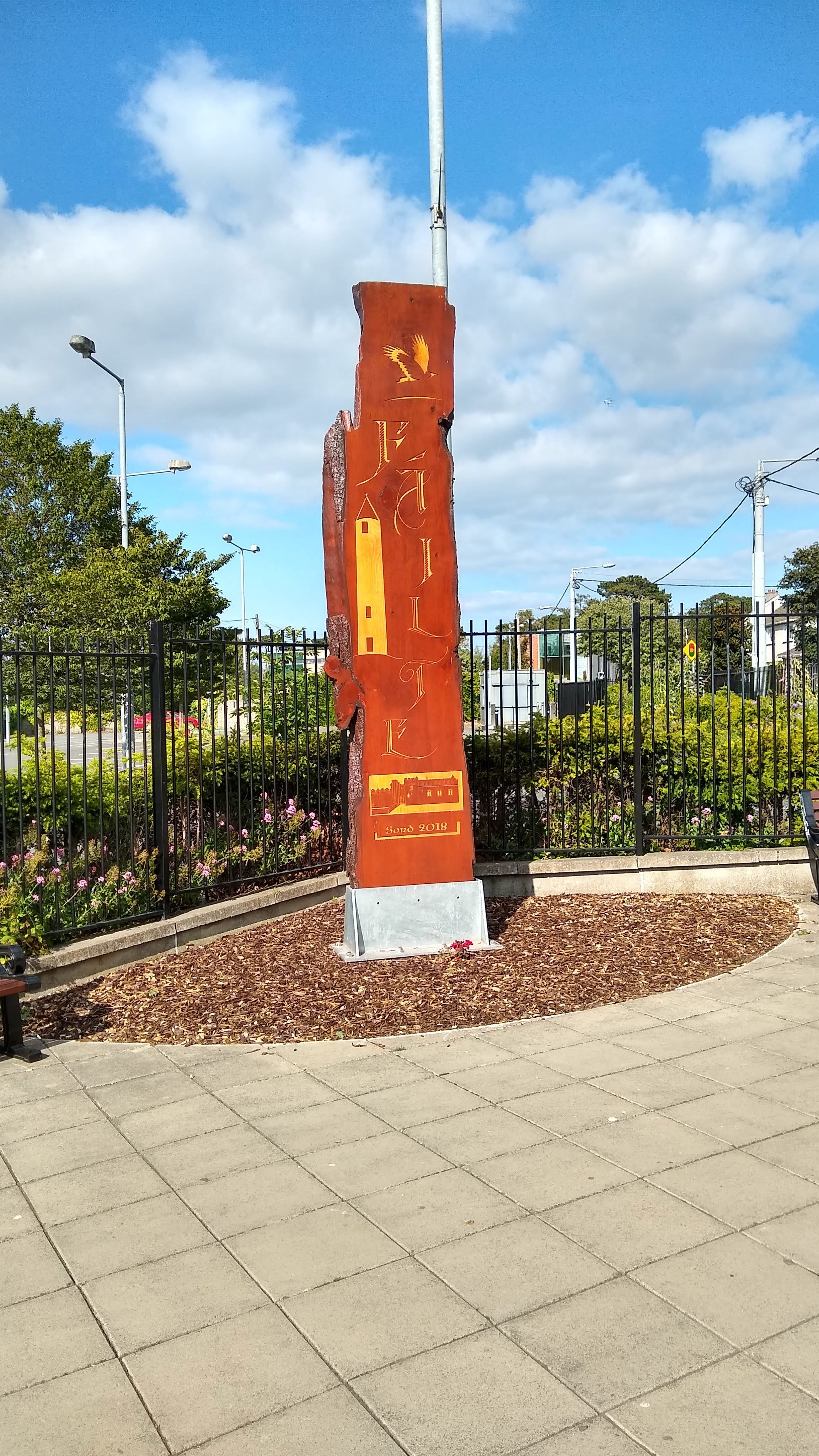 Fáilte Sord 2018 sculpture, carved in a 100-year-old Cedar Glauca piece.